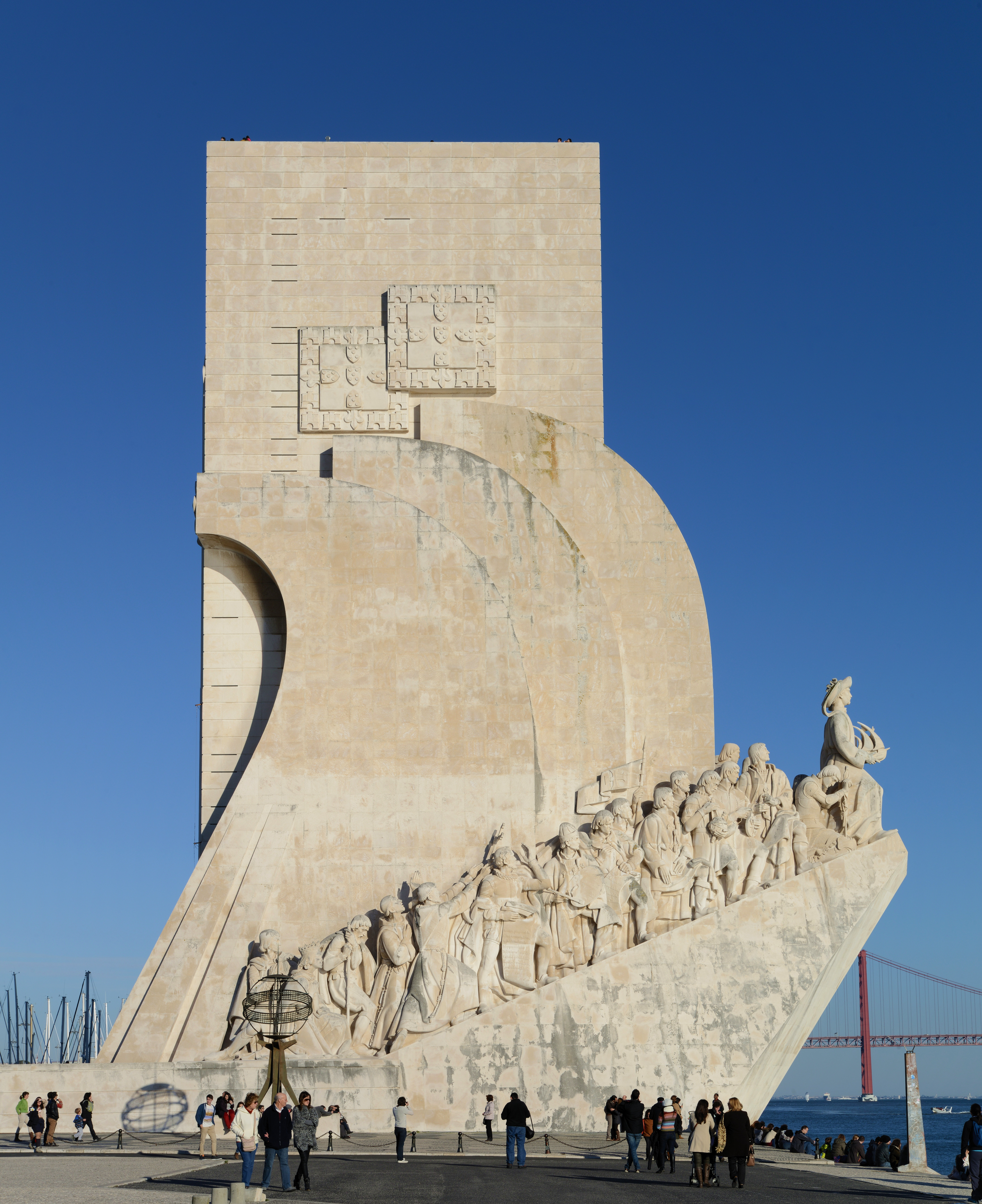 Monument to the Portuguese Discoveries (Padrão dos descobrimentos), Lisboa, Portugal